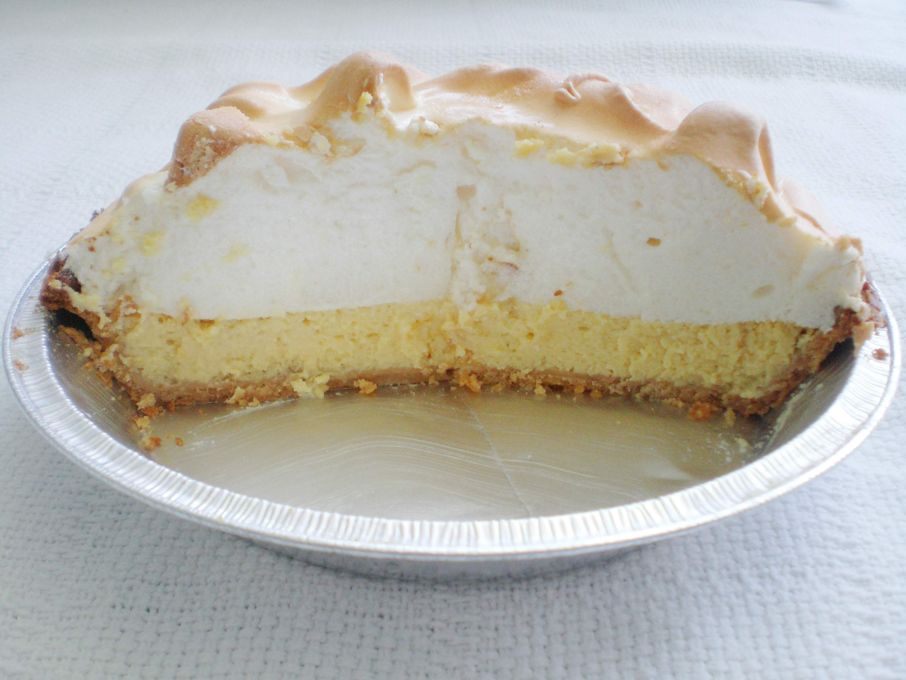 Digital photo taken by Marc Averette. Cut-away view of a genuine Key Lime pie